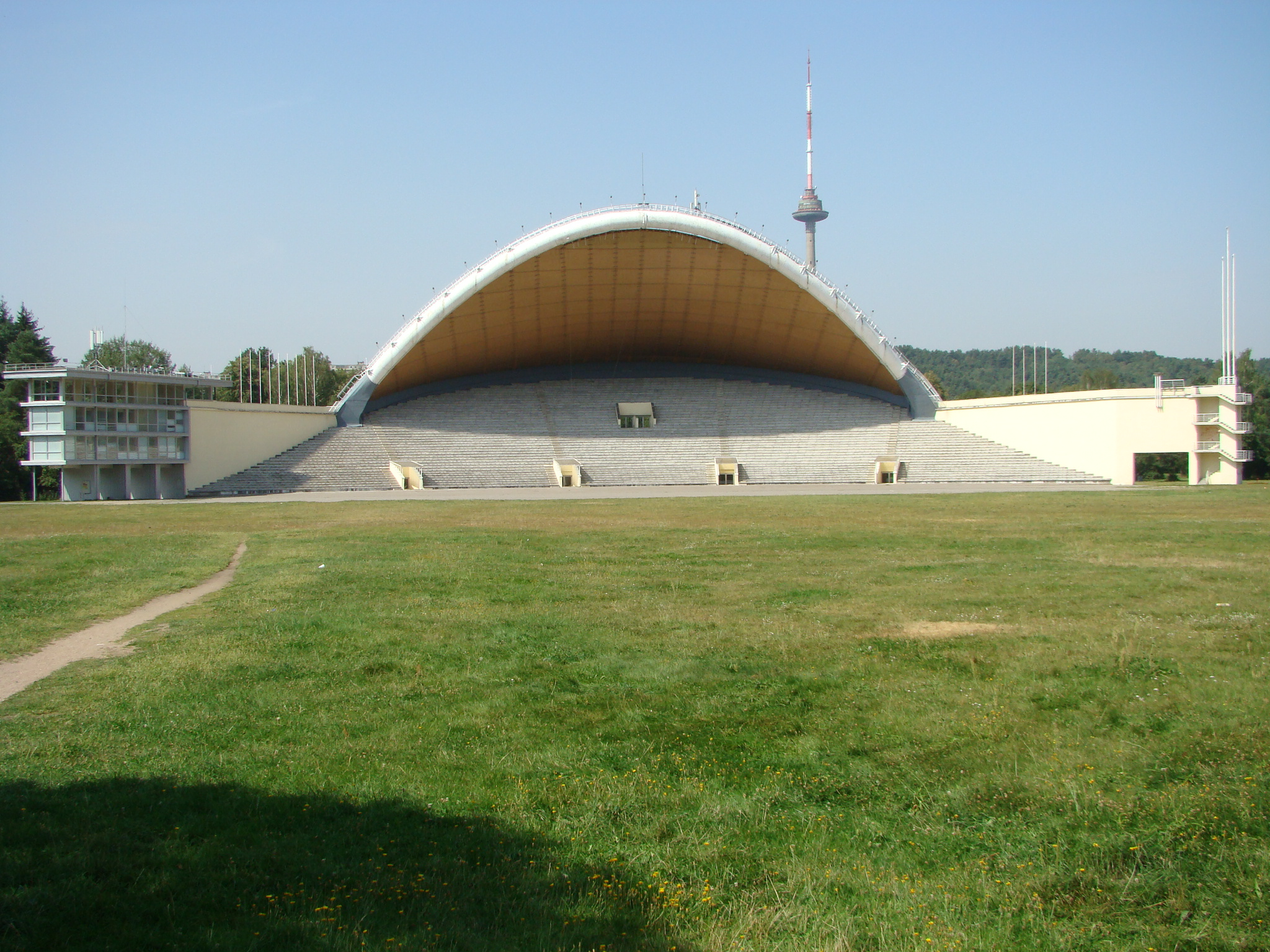 Open stage for traditional song and dance festival ( Dainų šventė ) in Vingis park, Vilnius